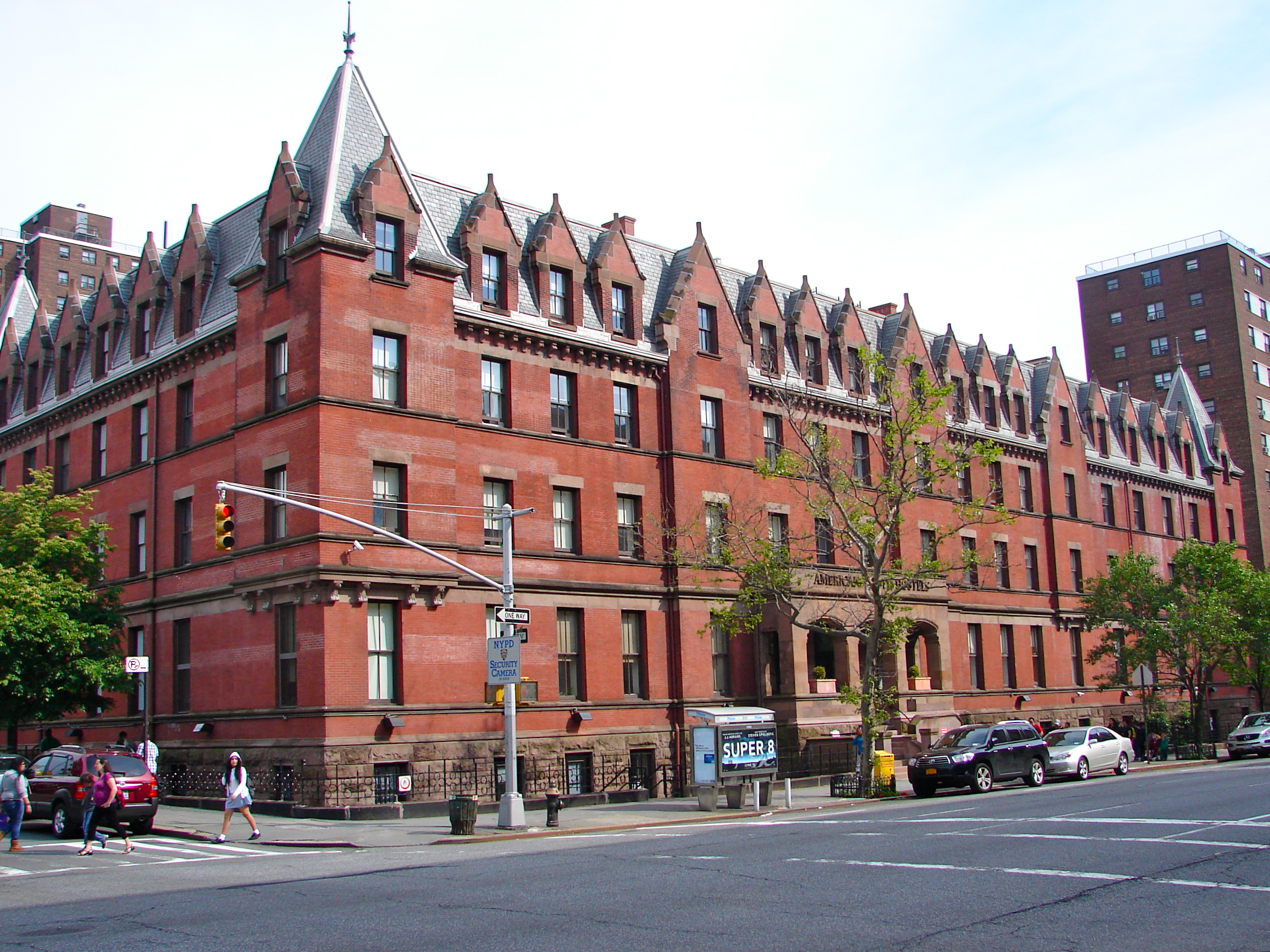 Association Residence Nursing Home on the NRHP since February 20, 1975. At 891 Amsterdam Ave. (between 104th and 103rd) in Manhattan, New York City, New York. Now houses the Hosteling International youth hostel in New York City